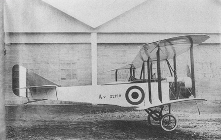 Moncenisio SVA airplane